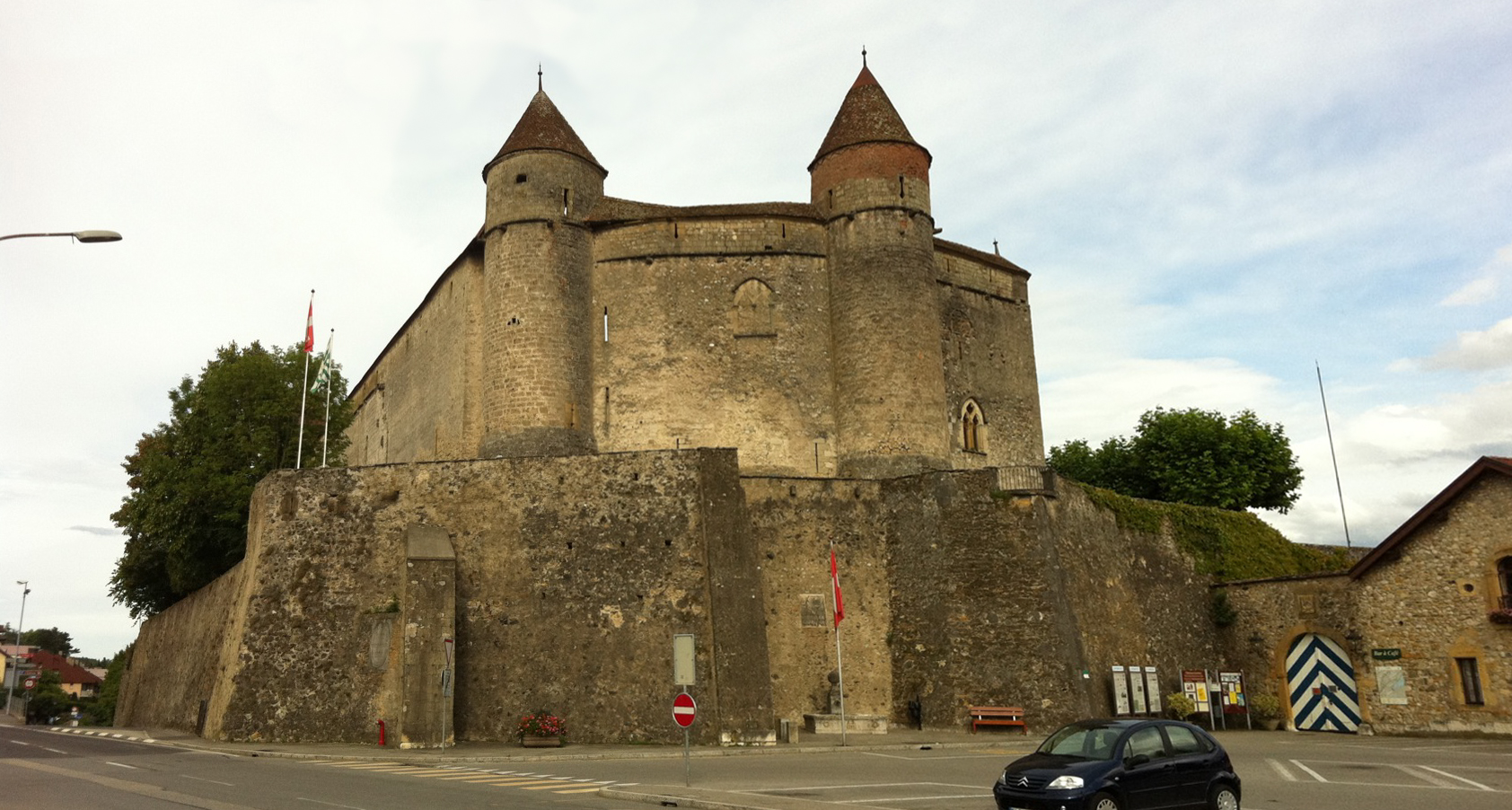 Château de Grandson